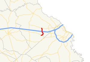 Map of Georgia State Route 388